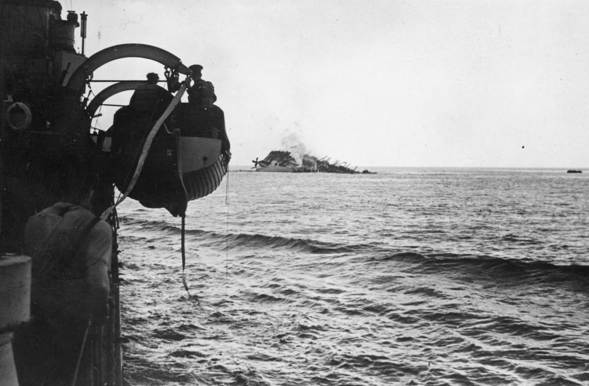 The Sinking of the Cunard Liner Ss Lancastria Off St Nazaire